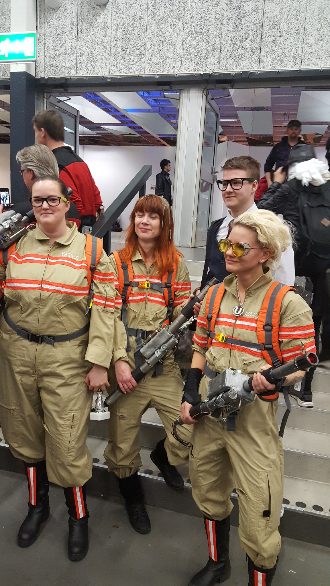 People dressed as characters from 2016 film Ghostbusters at Stockholm International Fairs in 2016